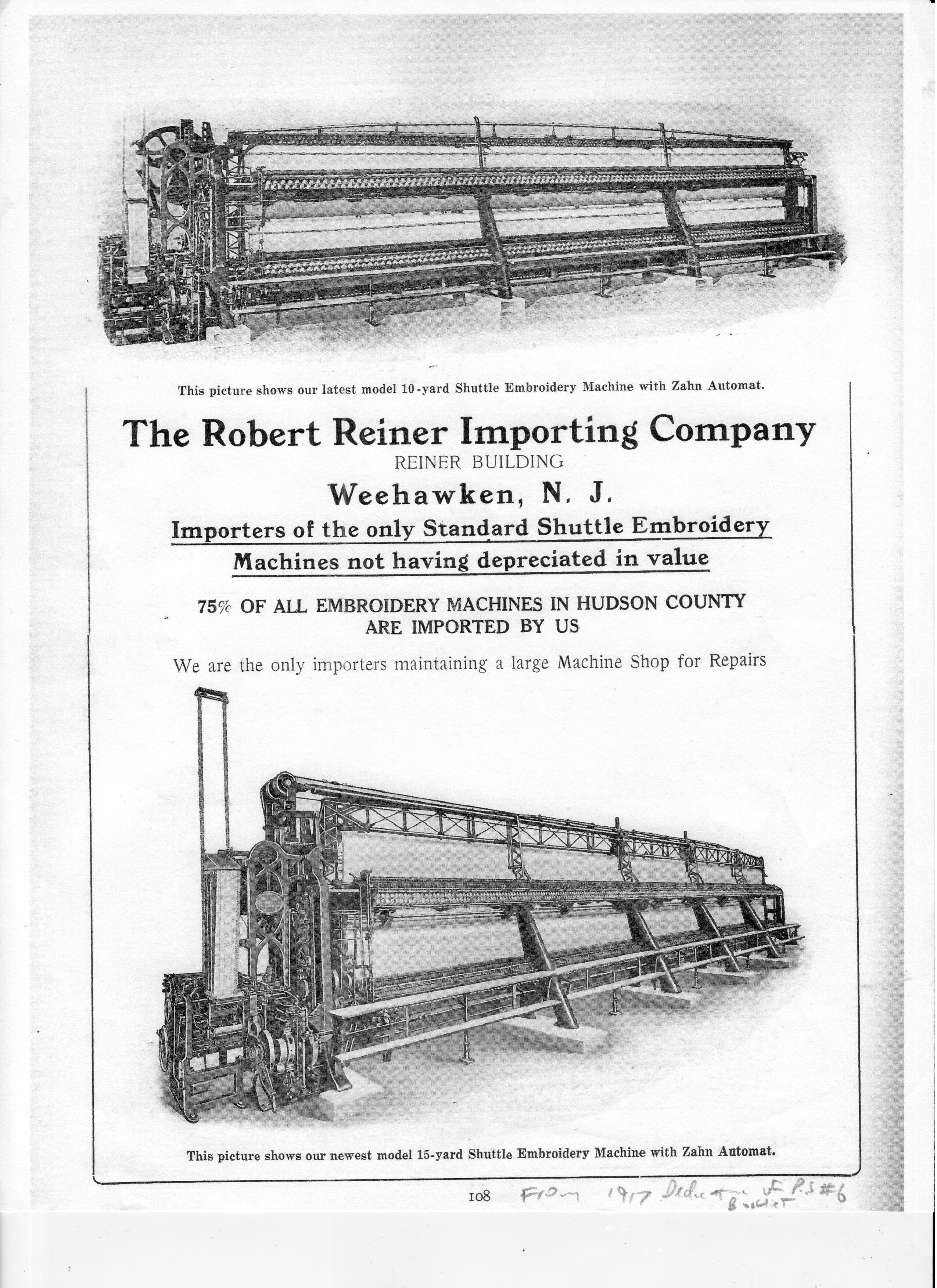 Robert Reiner Importing Company advertisement circa 1917 showing ten and 15 meter embroidery machines. The company was located in Weehawken, NJ. This ad is more than 100 years old. Commercial opportunities of its owner are unlikely.